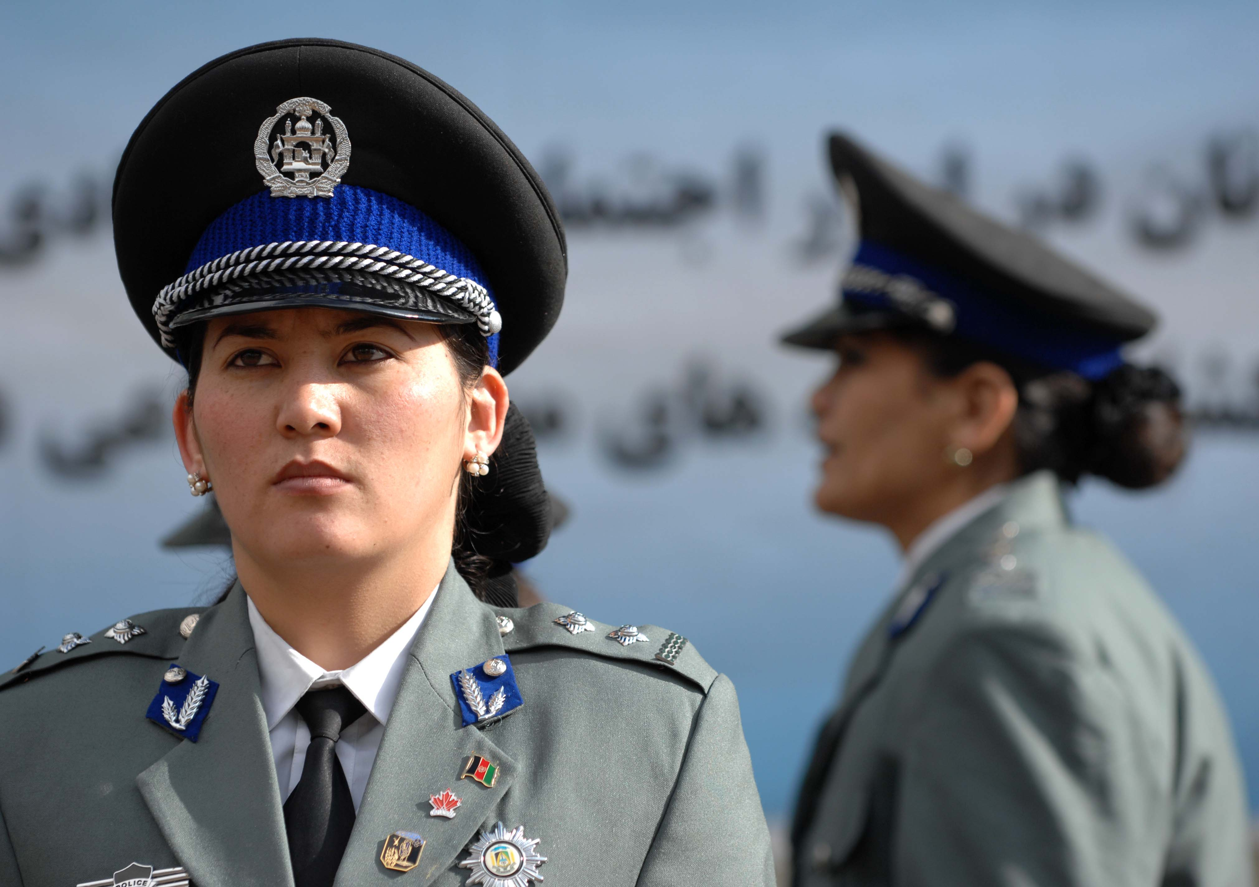 An Afghan National Policewoman (ANP) stands at attention during a pass and review formation before the start of the International Women’s Day ceremony at the Ministry of Interior in Kabul, Afghanistan, March 4, 2010. International Women’s Day, honors women around the world, particularly working women. Today, Afghan women are being recognized for the many contributions toward making their country a better place and paving the way for women in the future to have a voice in economic and political matters. (U.S. Air Force Photo/Staff Sgt. Larry E. Reid Jr.)